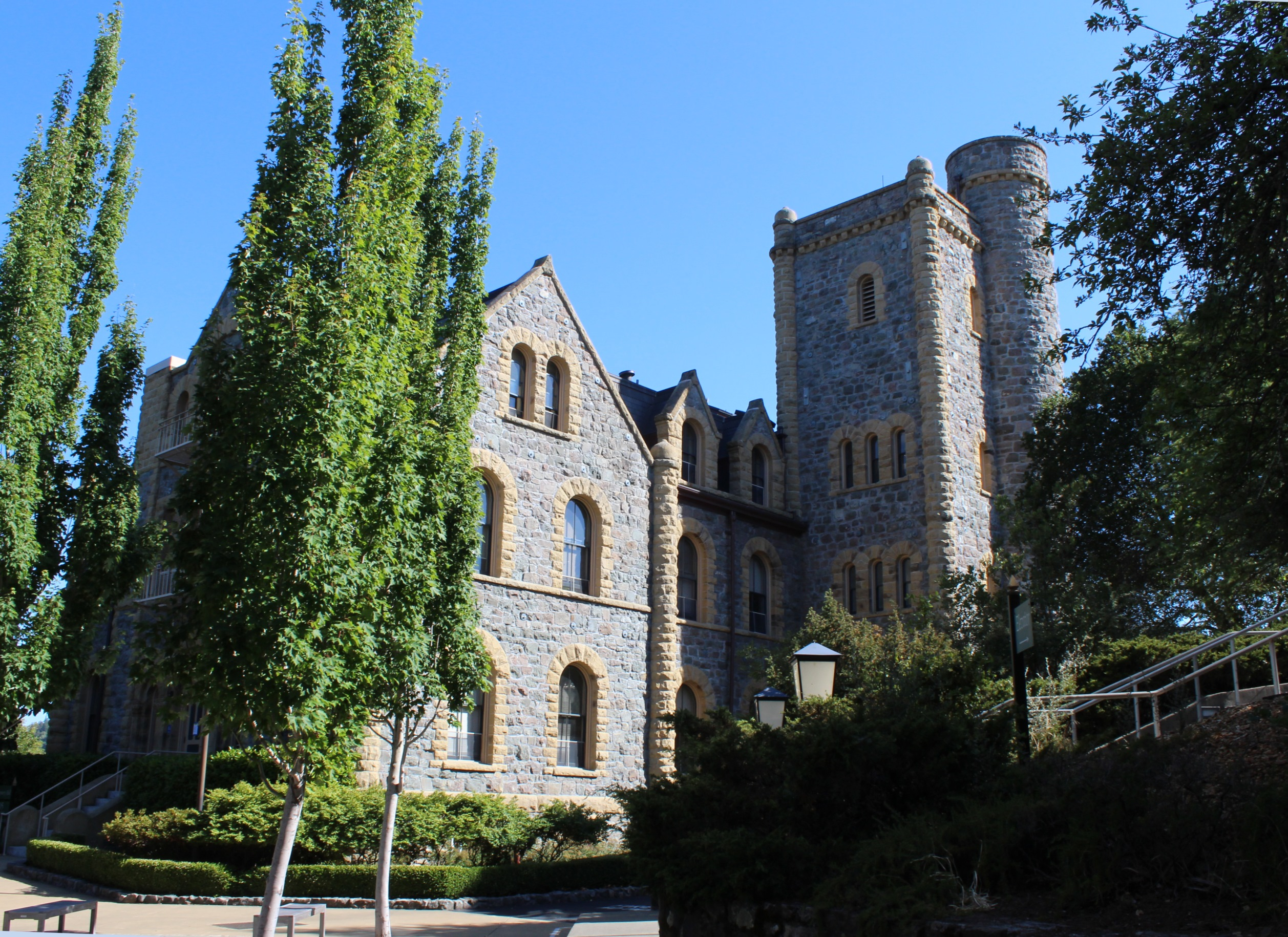 San Aselmo, CA USA - San Francisco Theological Seminary